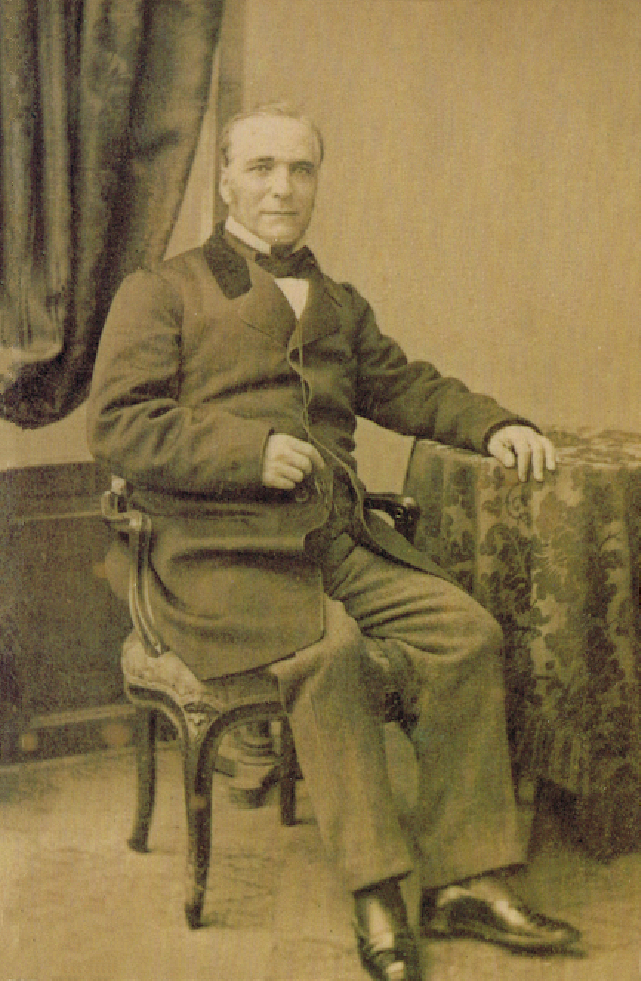 Photograph of António Bernardo da Costa Cabral, 1st Count and 1st Marquis of Tomar (1803-1889)